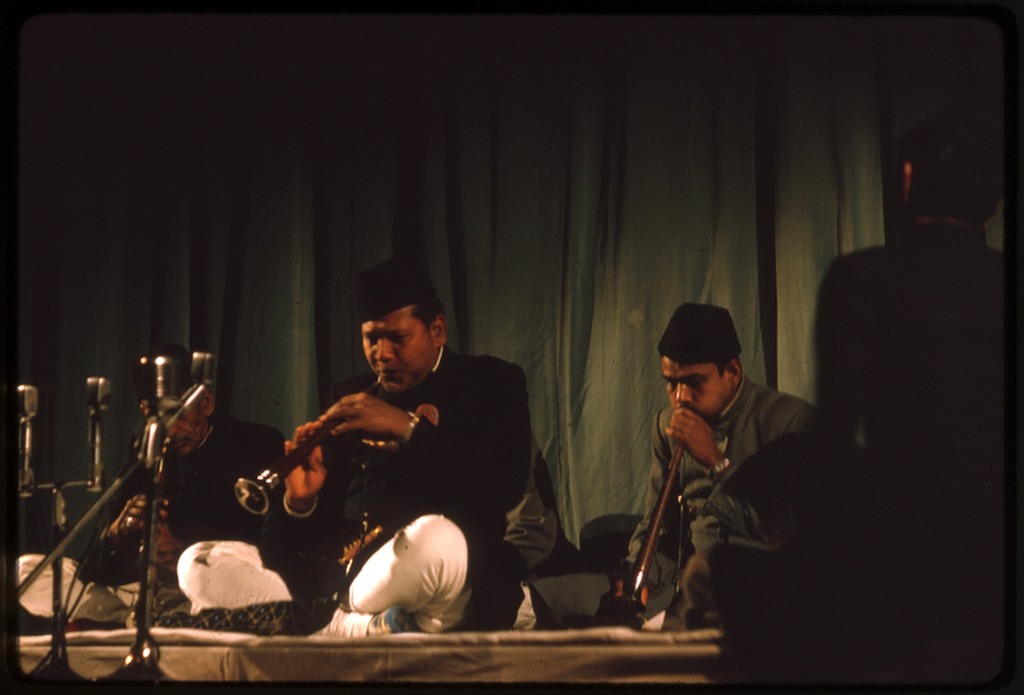 Photo of Bismillah Khan 1964, by Robert Garfias; Anthropology, UCI